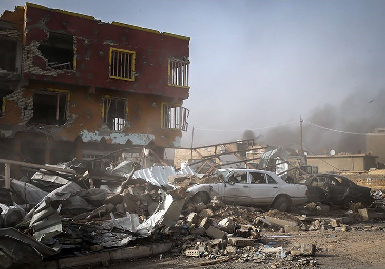 Liberation of Fallujah by Iraqi Armed Forces and The People's Mobilization (Shi'a militias)